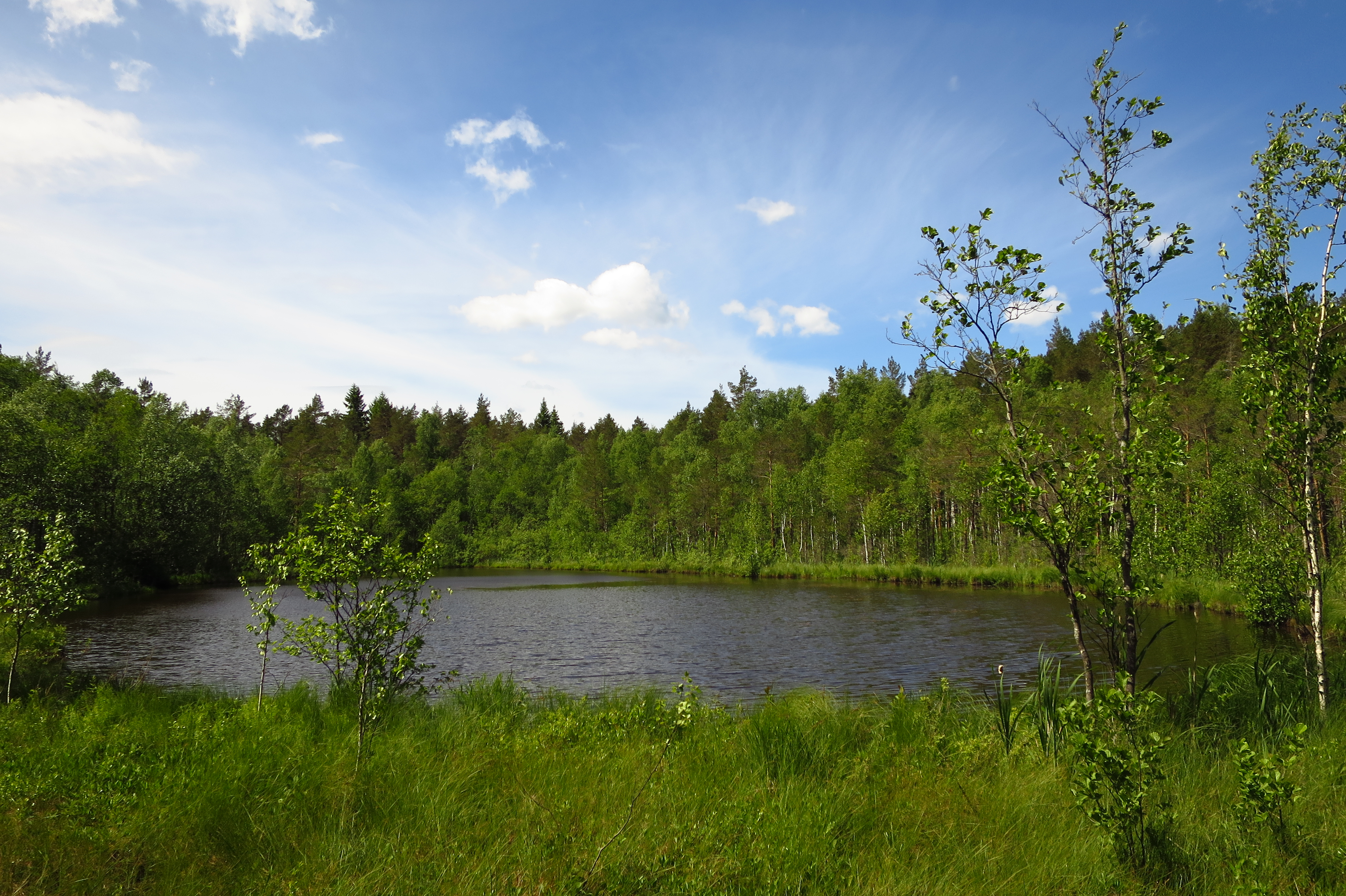 Kurtna Sisalikujärv Kurtna MKAl